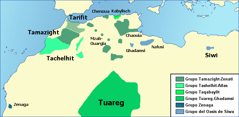 Map of Berber Languages